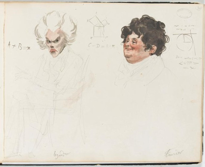 1820 watercolor portrait of French mathematicians Adrien-Marie Legendre and Joseph Fourier Reference Boilly, Julien-Leopold. (1820). Album de 73 Portraits-Charge Aquarelle’s des Membres de I’Institute (watercolor portrait #29). Biliotheque de l’Institut de France.